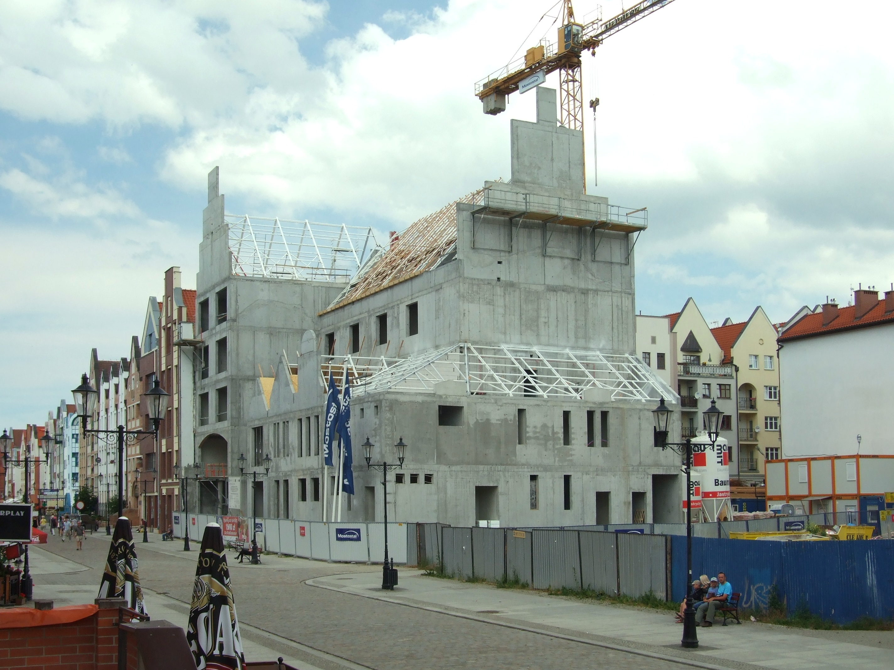 New buildings under construction in the central parts of Elbląg, Poland, near the Old square (Stary Rynek)